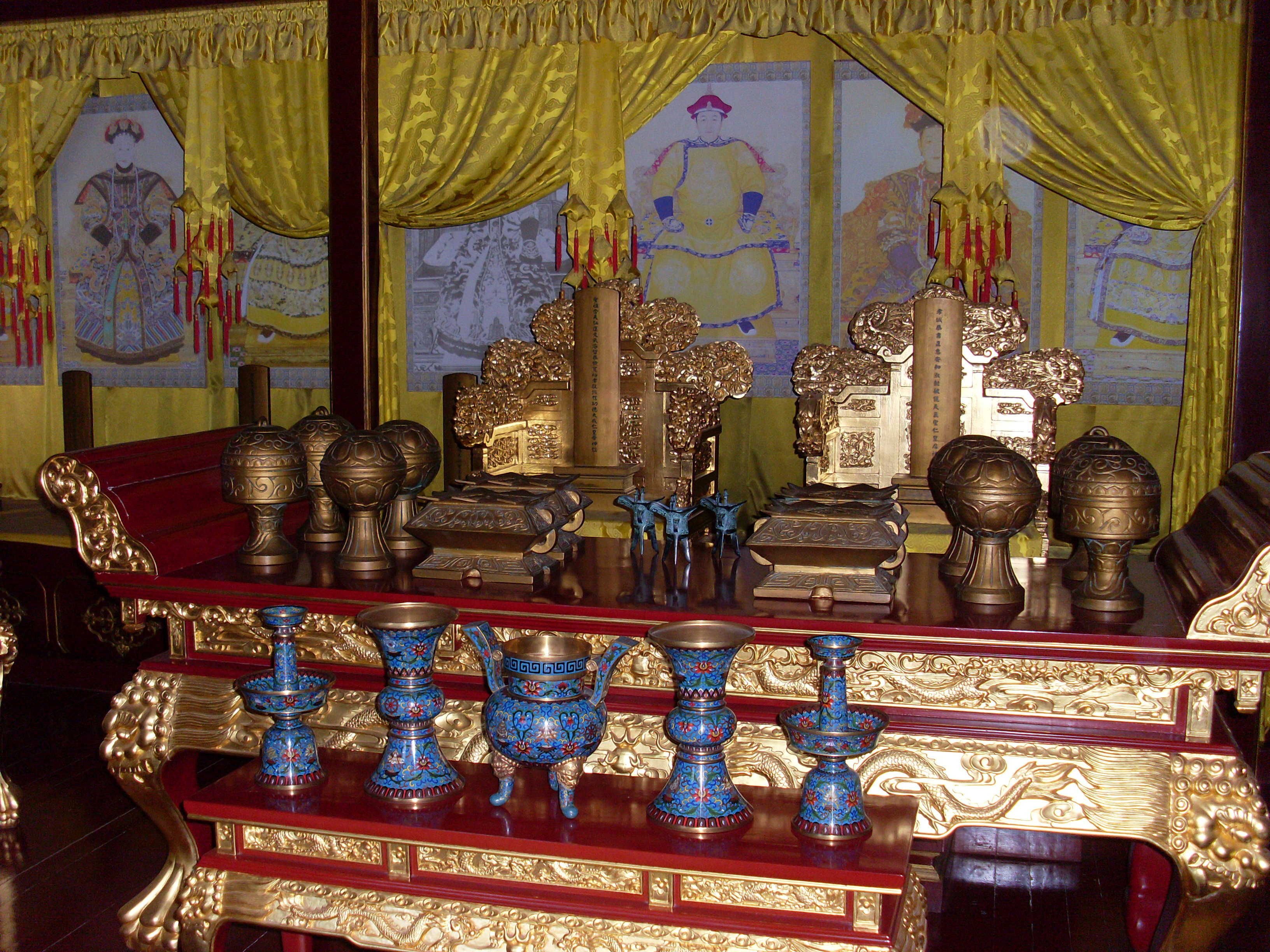 Spirit tablet Of Qing Emperors in Museum of the Imperial Palace of the Manchu State in Changchun, China.